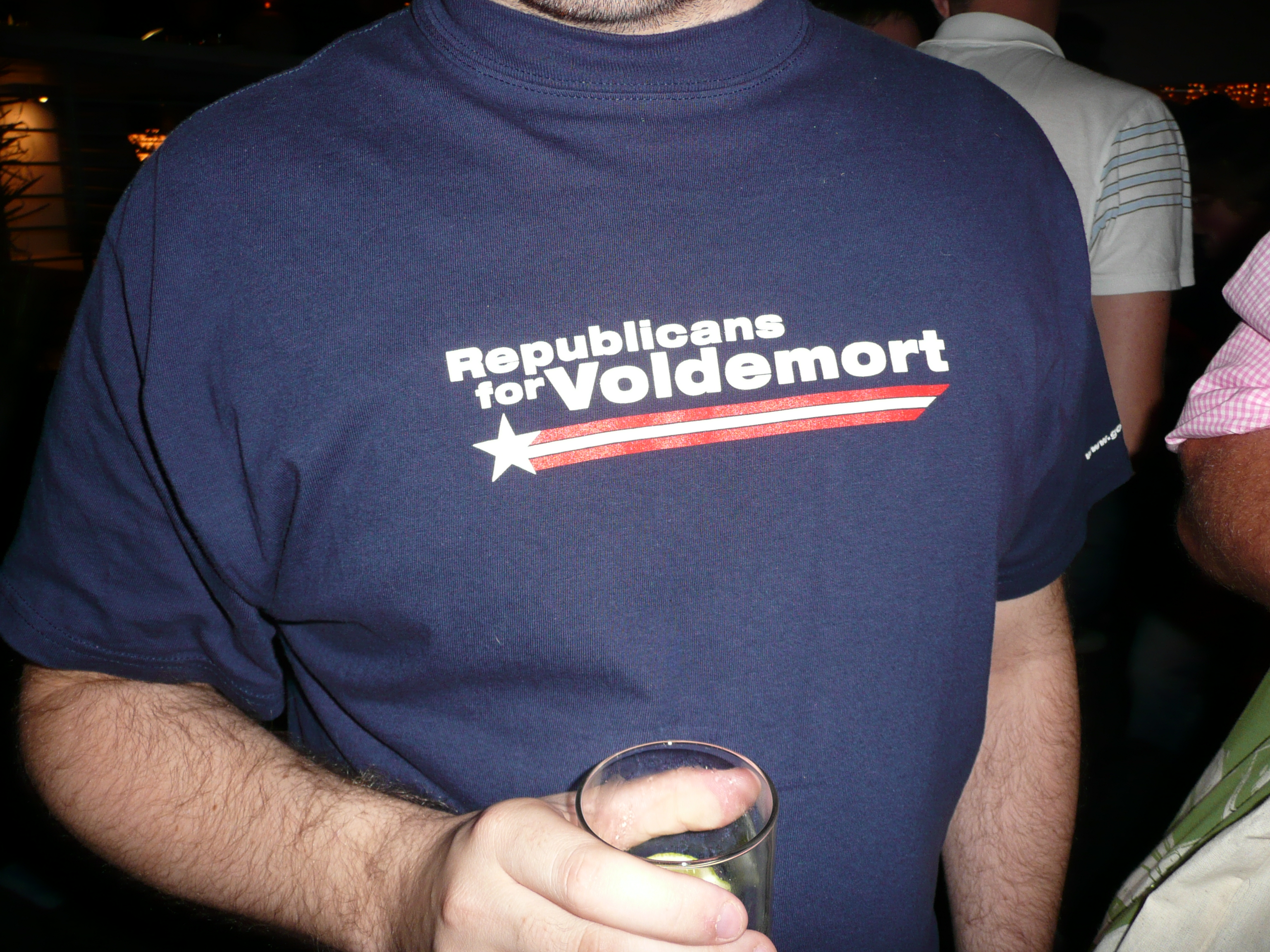 Voldemort's fake election slogan